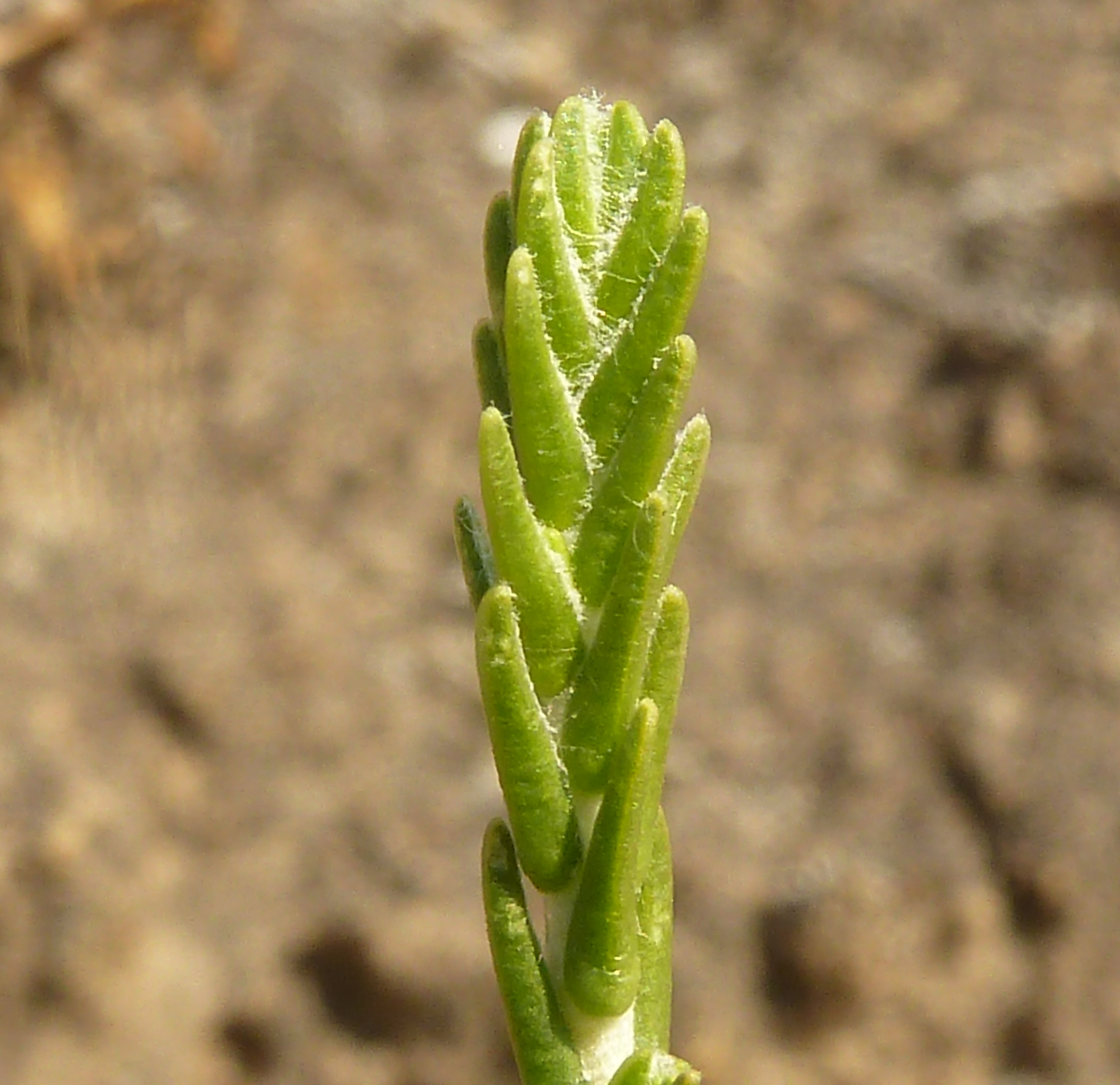 Foliage of Mountain gonna at Clarens, Free State